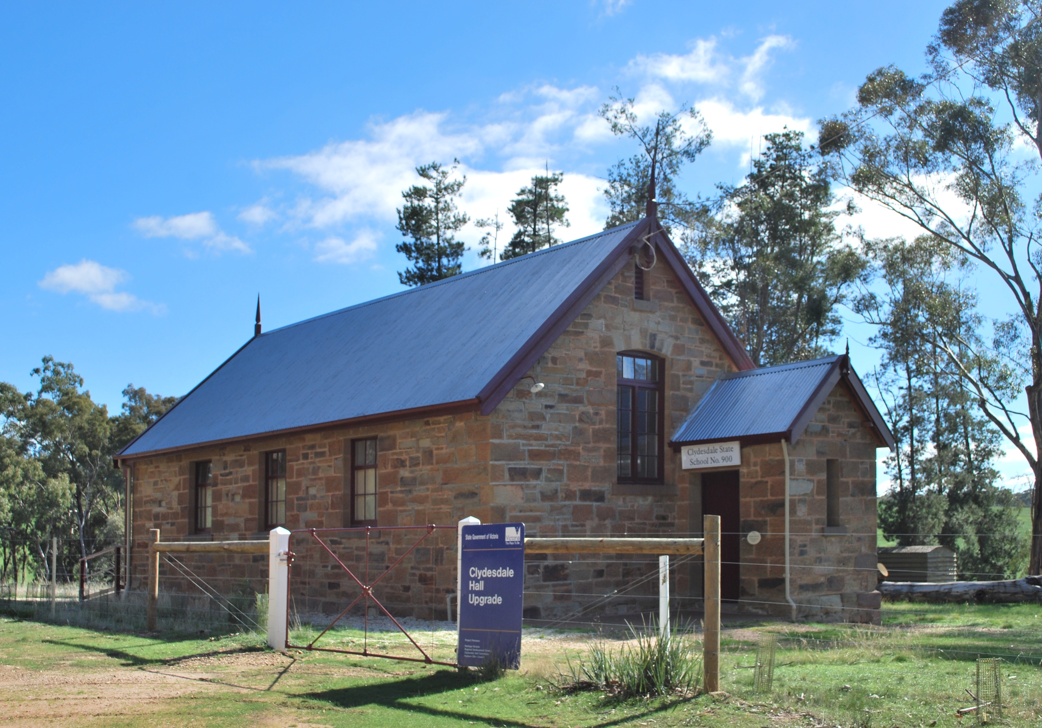 Public Hall, a former school, at Clydesdale, Victoria